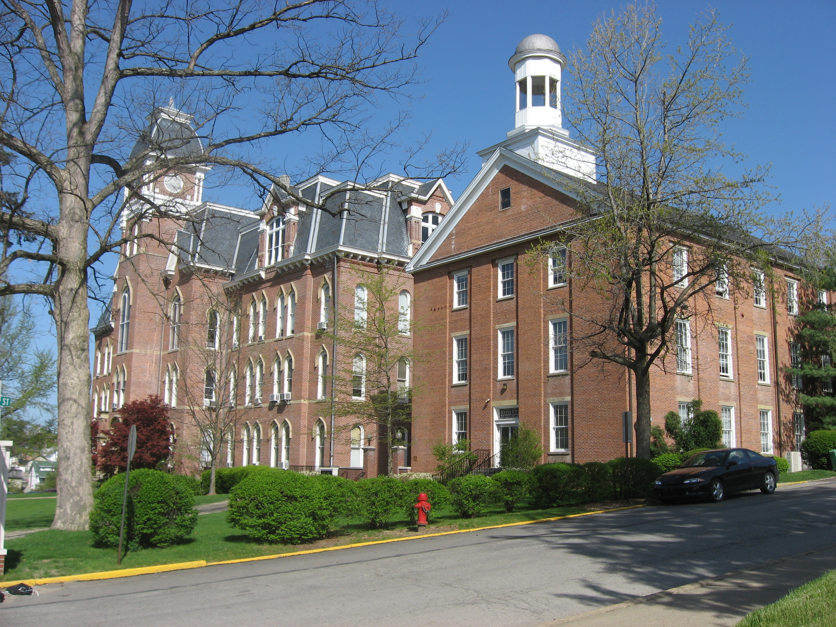 Fronts of Hanna and Miller Halls on the campus of Waynesburg University in Waynesburg, Pennsylvania, United States. Built in 1851 and 1874, both buildings are listed on the National Register of Historic Places.